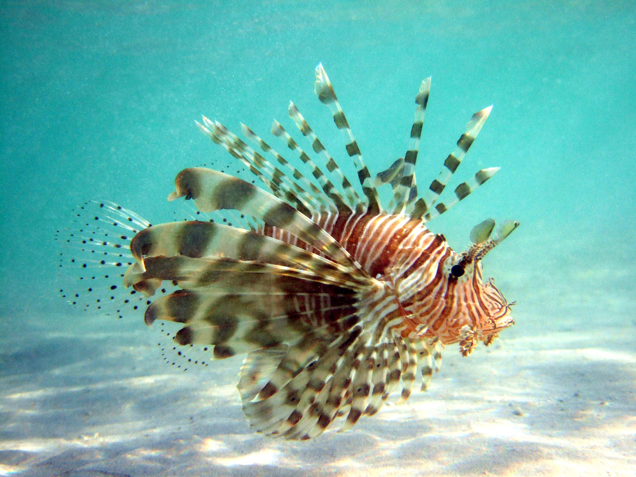 This image is of a lionfish with its pectoral fins spread out with the dorsal fins in view on top. The lionfish is hovering above the sandy sea floor.